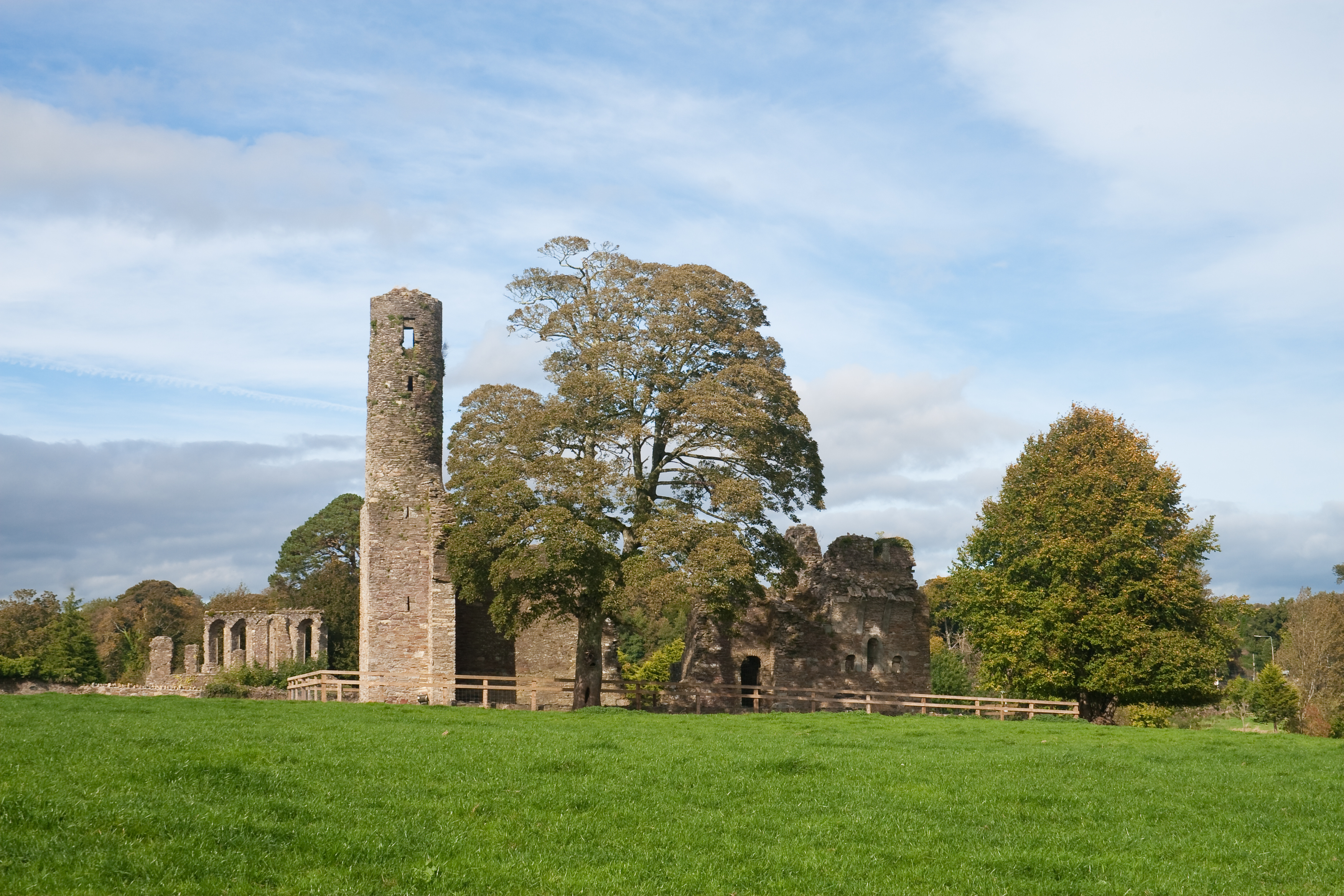 Ferns Abbey, Ferns, County Wexford, Ireland South range of Ferns Abbey. At the left, the 13th-century ruins of Ferns Cathedral are to be seen.